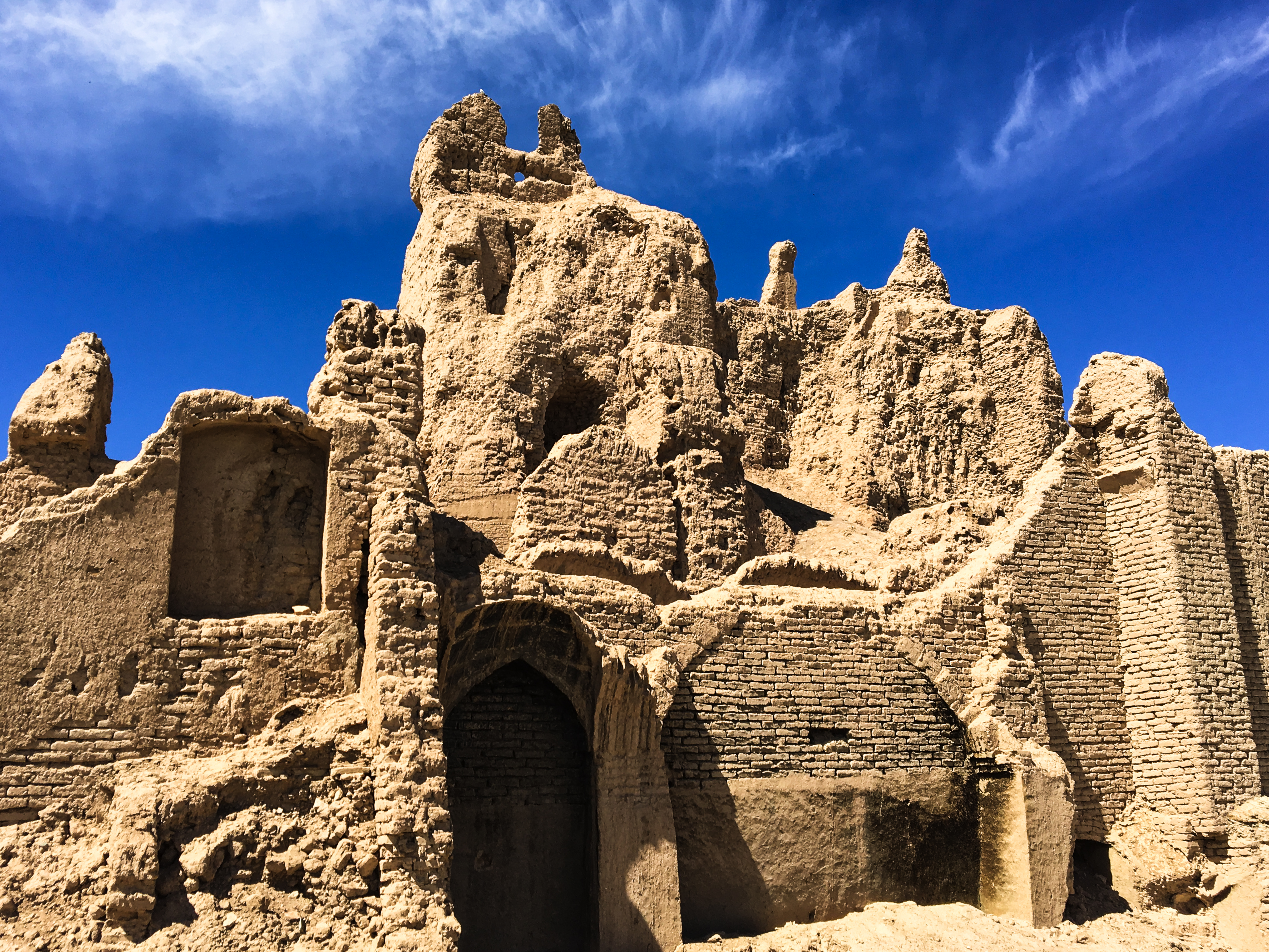 Narenj Castle , or Narin Castle Is an old citadel located in the historic part of Nain town , Isfahan province. For